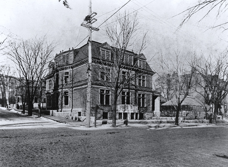 Print, Sir William C. Van Horne house, Sherbrooke St. at Stanley St., Montreal, QC, about 1890, Anonymous, Ink on paper - Halftone - 12 x 17 cm